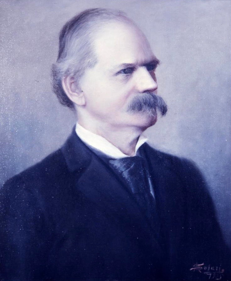 Collection: Governors Portraits photograph collection Call number: PI/1989.0008 System ID: 98791. Link to the catalog Governor John M. Stone, March 29, 1876 to Jan. 29, 1882, Jan. 13, 1890 to Jan. 20, 1896. Please see our profile page for information on ordering. Scanned as tiff in 2008/09/22 by MDAH. Credit: Courtesy of the Mississippi Department of Archives and History